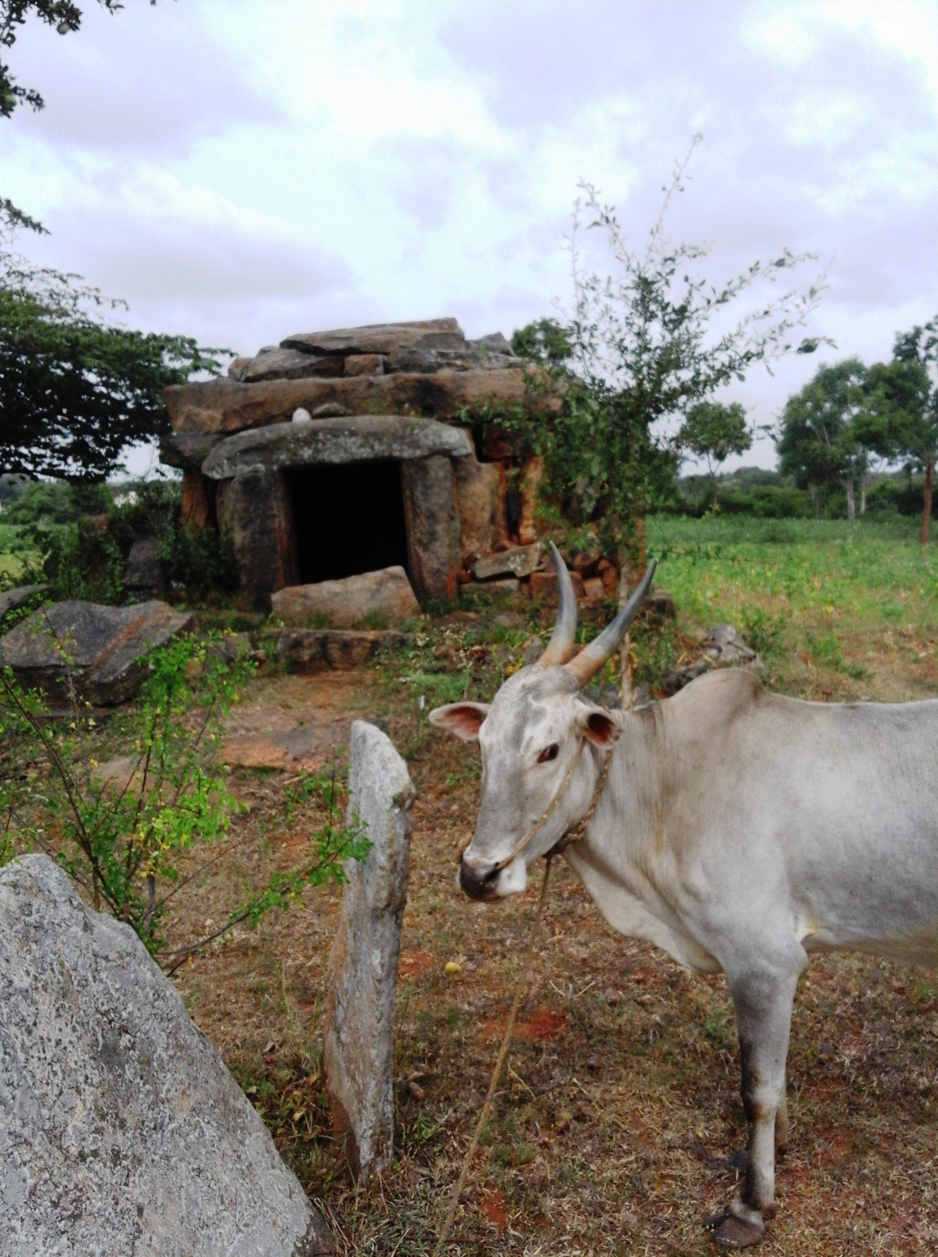 Mysore district, Karnataka state, India.